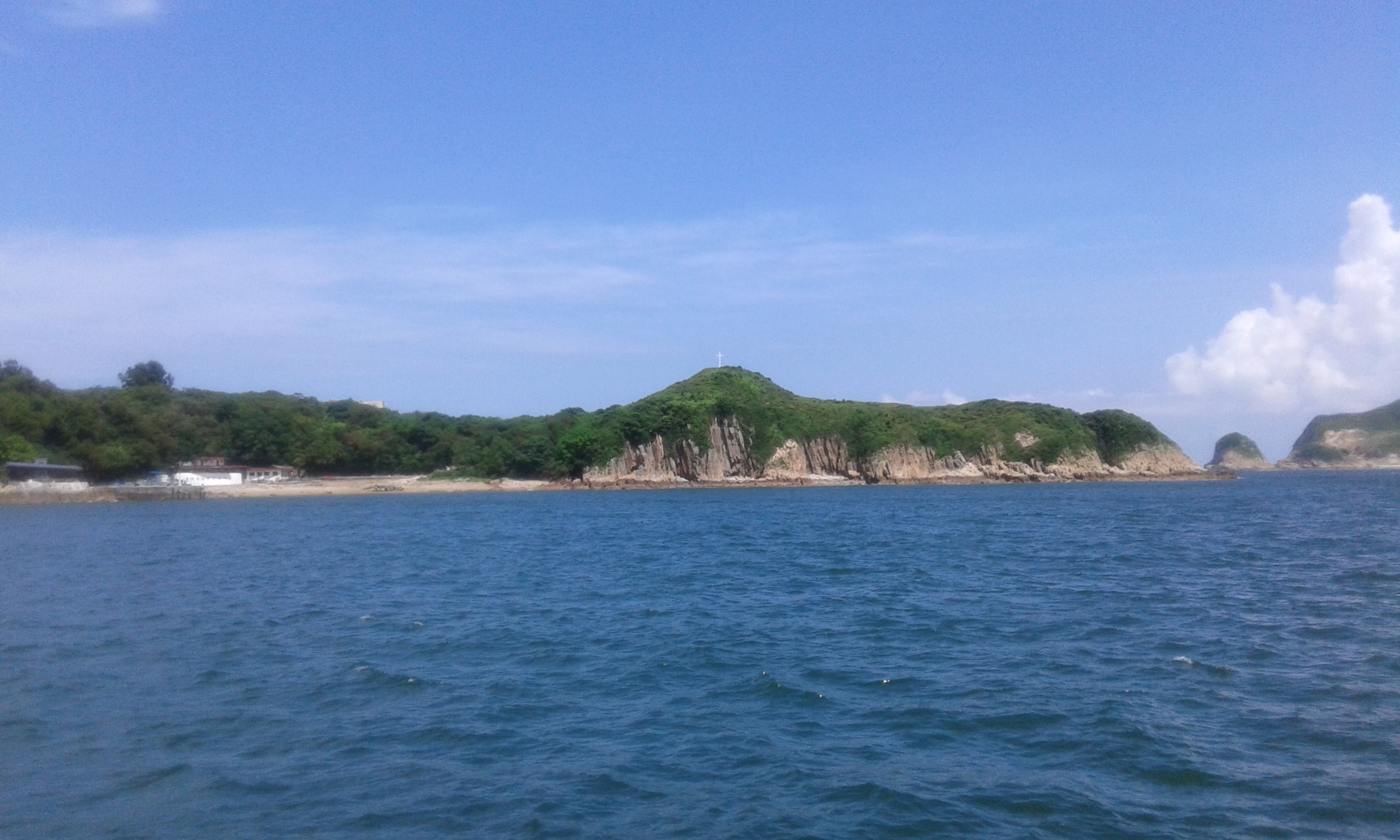 Town Island, viewed from the west. Pyramid Rock and a part of Basalt Island are visible on the right.